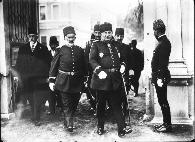 Nazim Pasha (died 1913) The War Minister of the Ottoman Empire